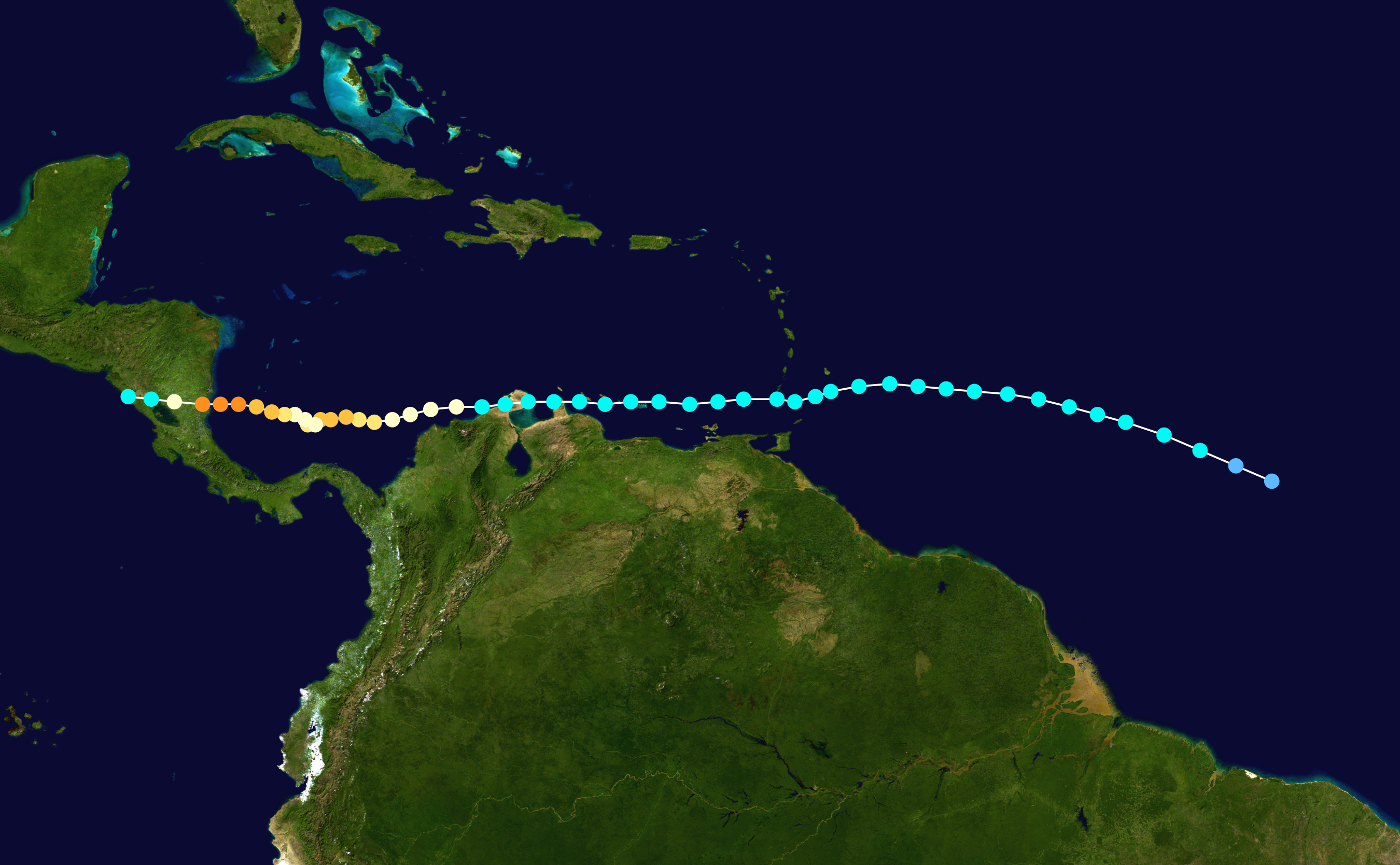 Hurricane Joan (1988) track. Uses the color scheme from the Saffir-Simpson Hurricane Scale.